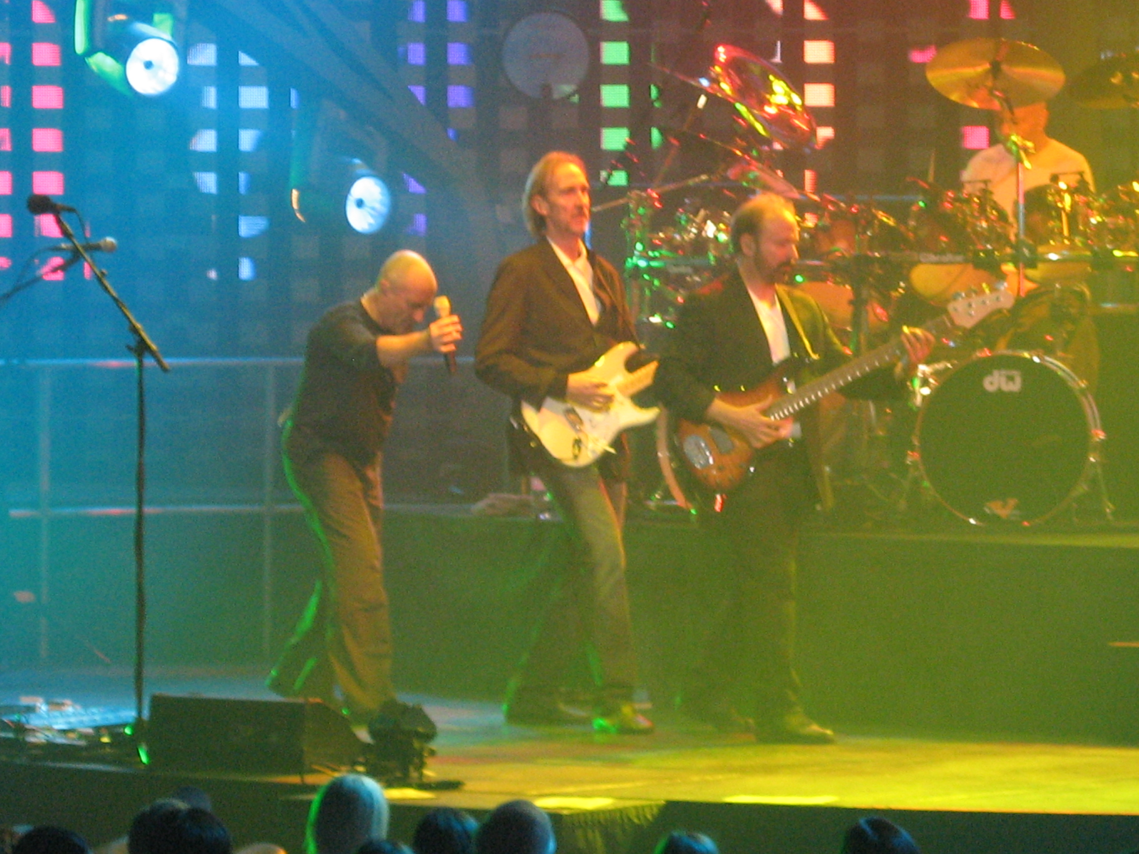 Genesis concert at the Verizon Center, Washington, D.C., USA. Performing "I Can't Dance".